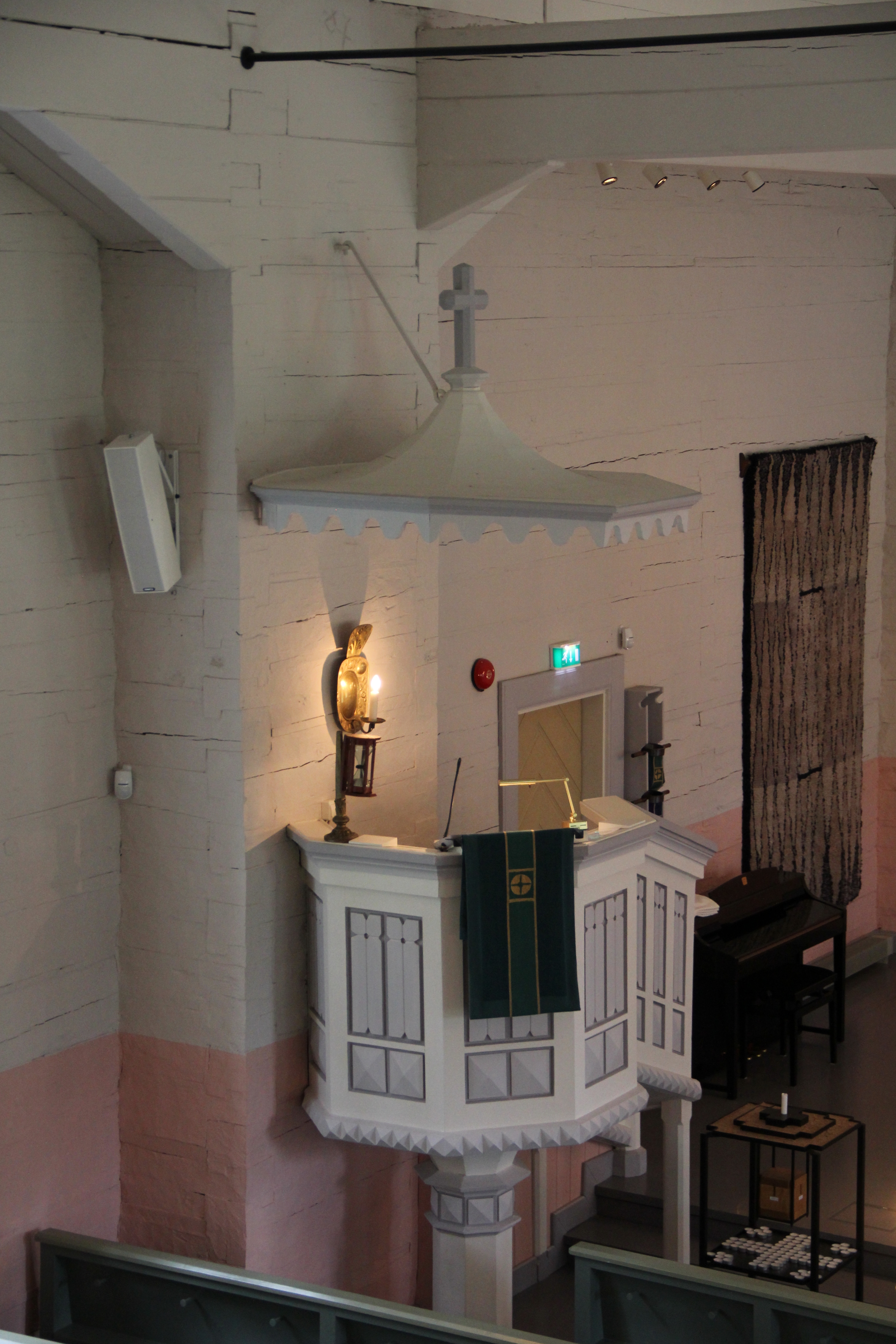 Utajärvi church, Utajärvi, Finland. - Pulpit seen from organ balcony.